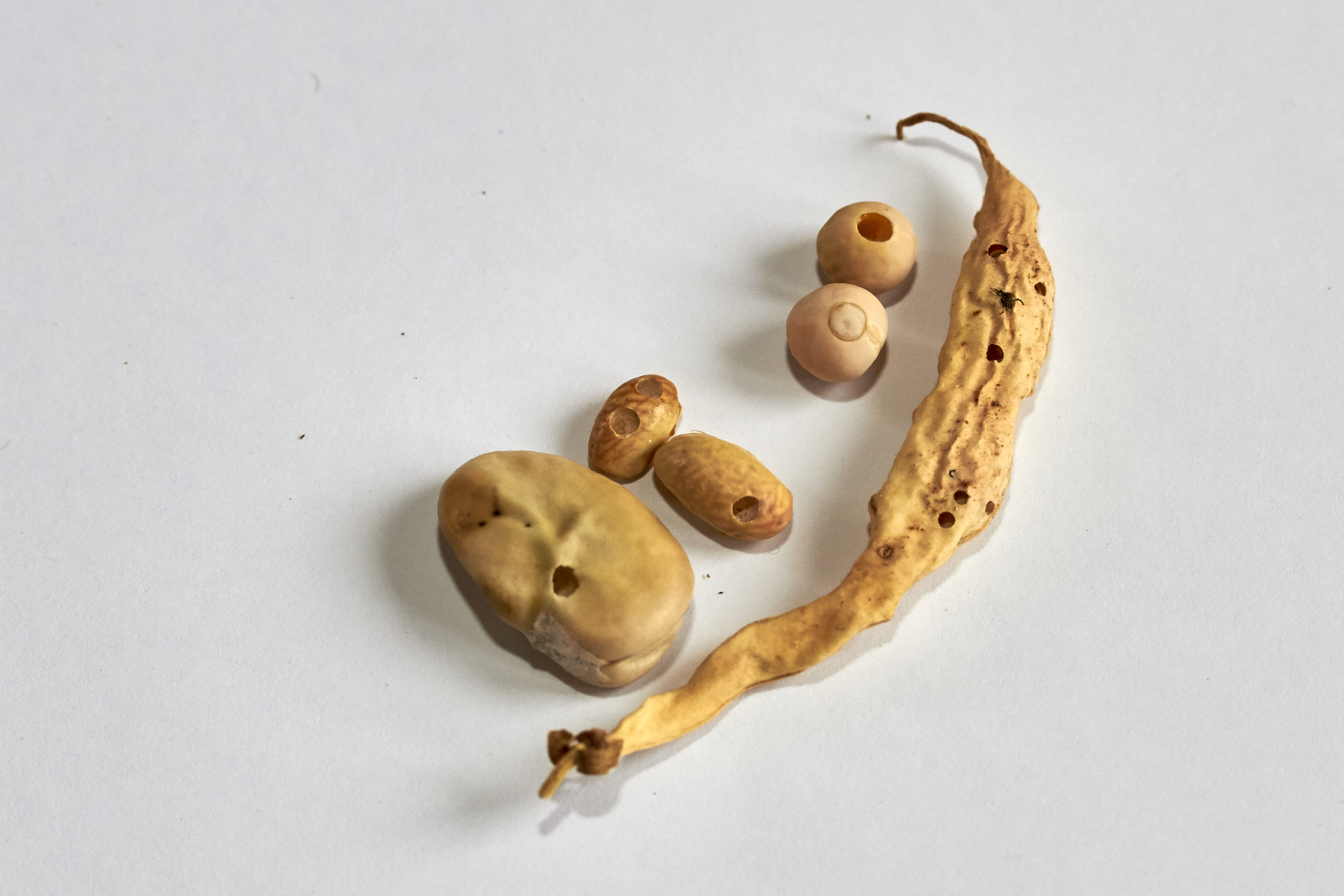 Beans, peas, and bean pot with holes drilled by Bruchus Rufimanus.Left second from top the cap has been cut by the larva while it stays in the pea for finishing its development. Right top a weevil is about to emerge.